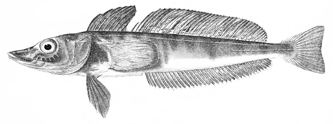 Champsocephalus gunnari